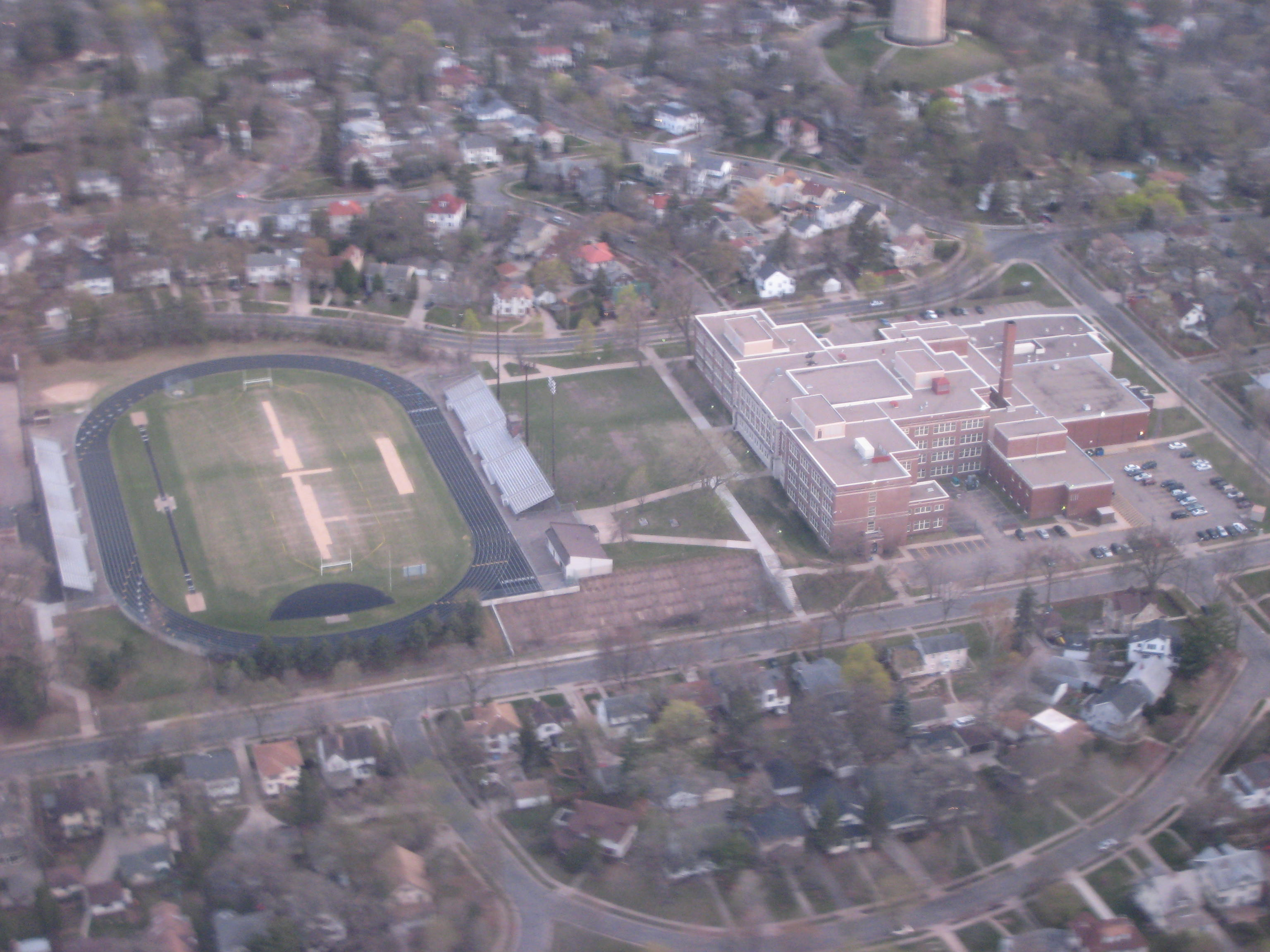 Washburn High School and the football field (setup for Track and Field competitions) as view from the air on April 24, 2007. Taken by edkohler on flickr.